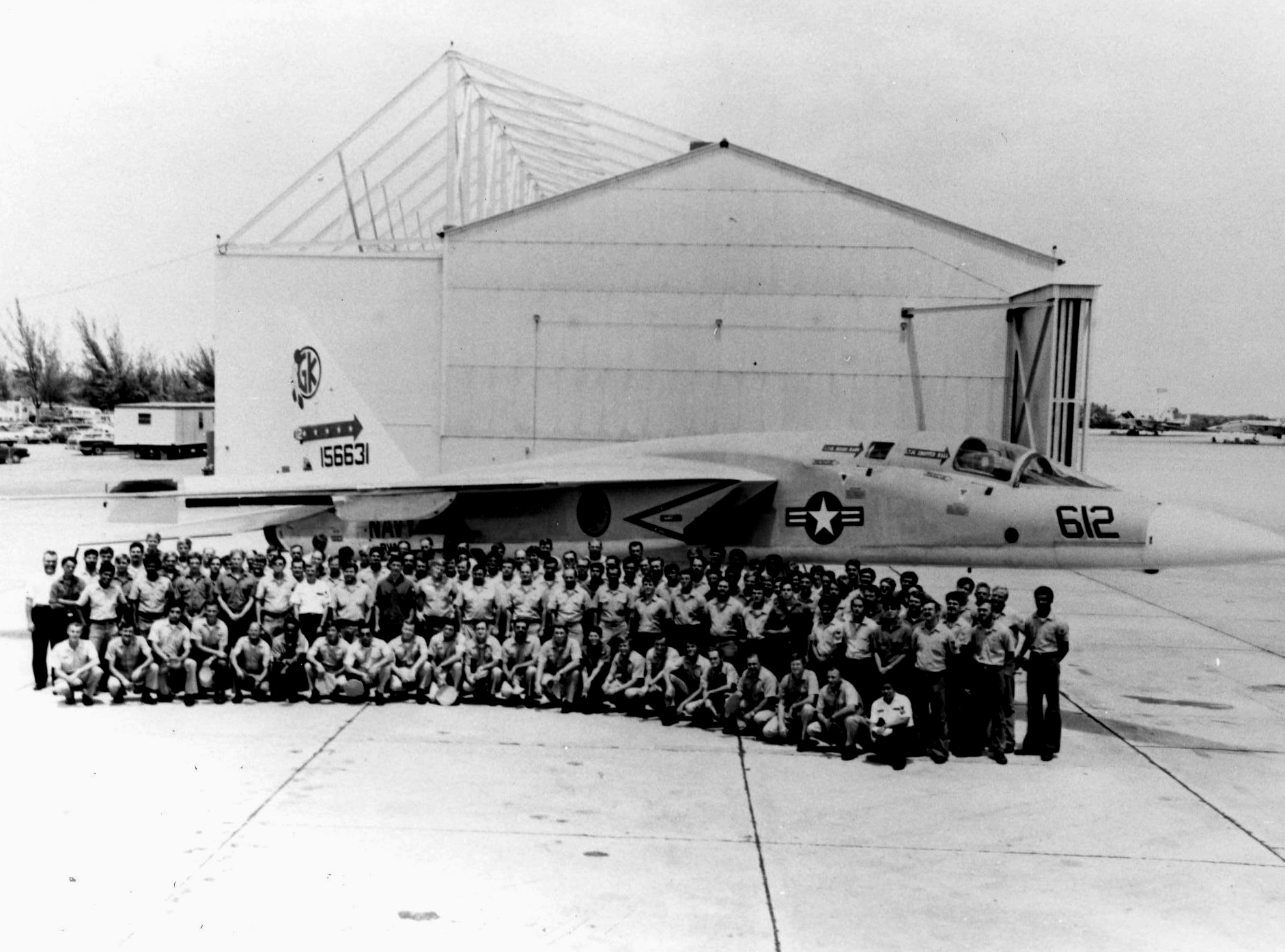 Group photograph of personnel of the U.S. Navy Reconnaissance Attack Squadron RVAH-5 Savage Sons just prior to the squadron's disestablishment on 30 September 1977. In the background is one of the squadron's North American RA-5C Vigilante aircraft (BuNo 156631). The photo was probably taken at Naval Air Station Key West, Fl. (USA).